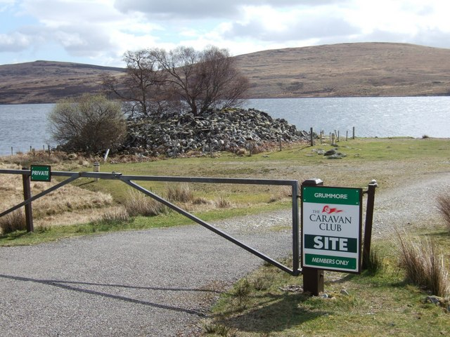 Broch at Grummore Broch about 2000 years old by Loch Naver. On the site of the Caravan Club Site at Grummore. It's like a big pile of stones with trees growing out of it but it historically very important.